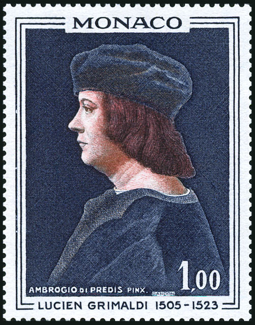 Stamp depicting Lucien I